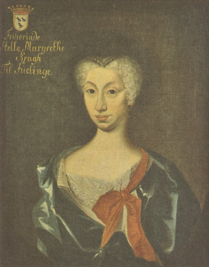 Ide Helle Margaretha baronesse Kragm Danish noblewoman